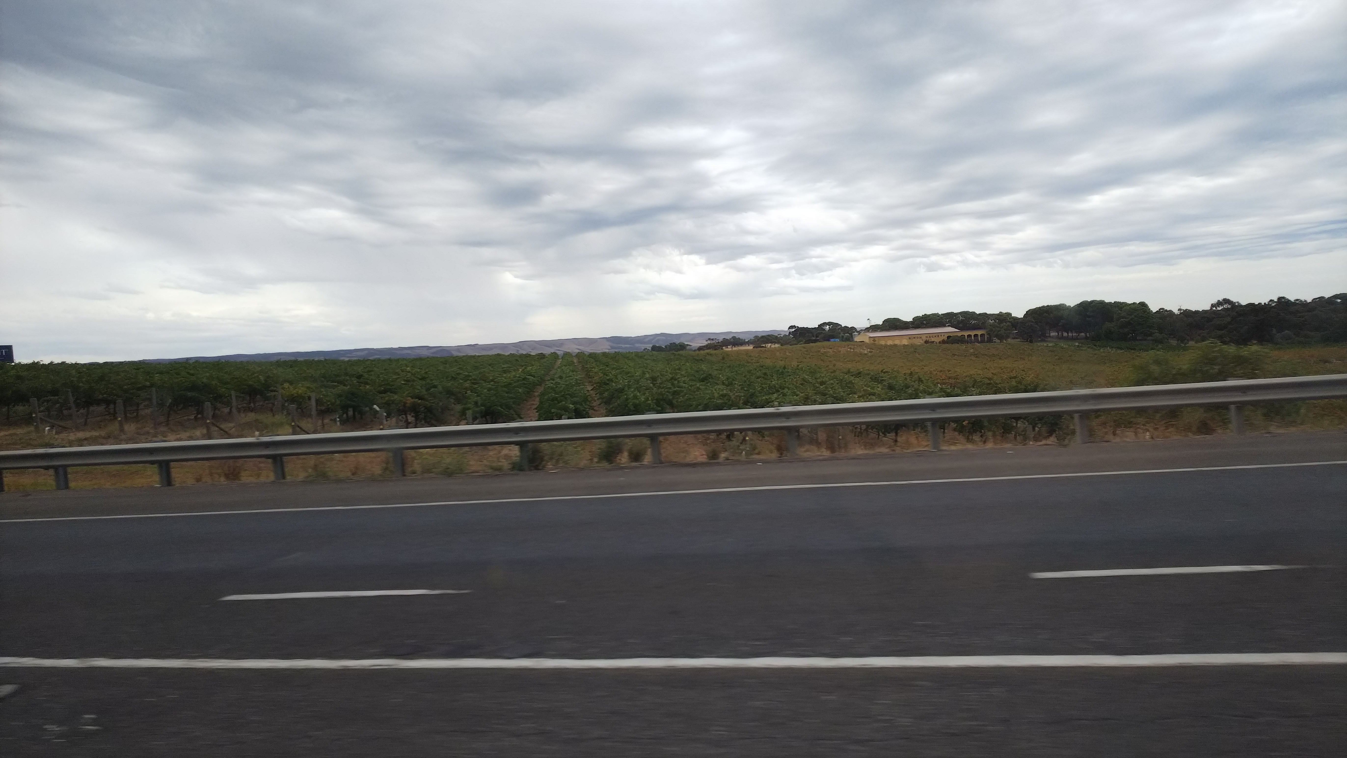 A vineyard in Fleurieu Peninsula